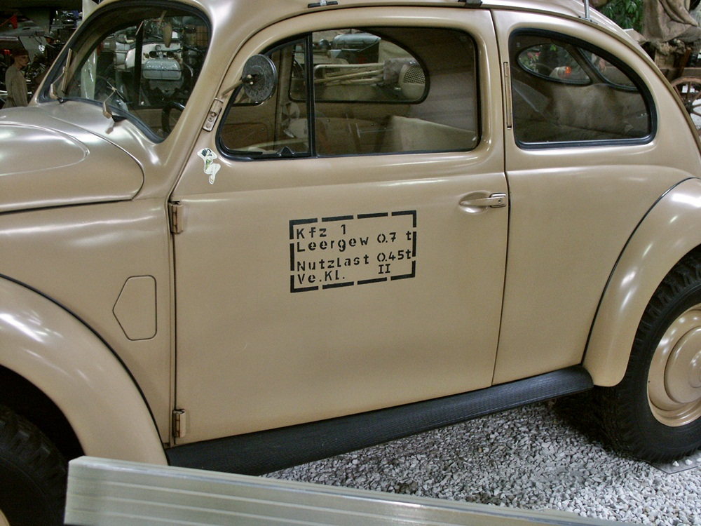 Weight and unit limitations